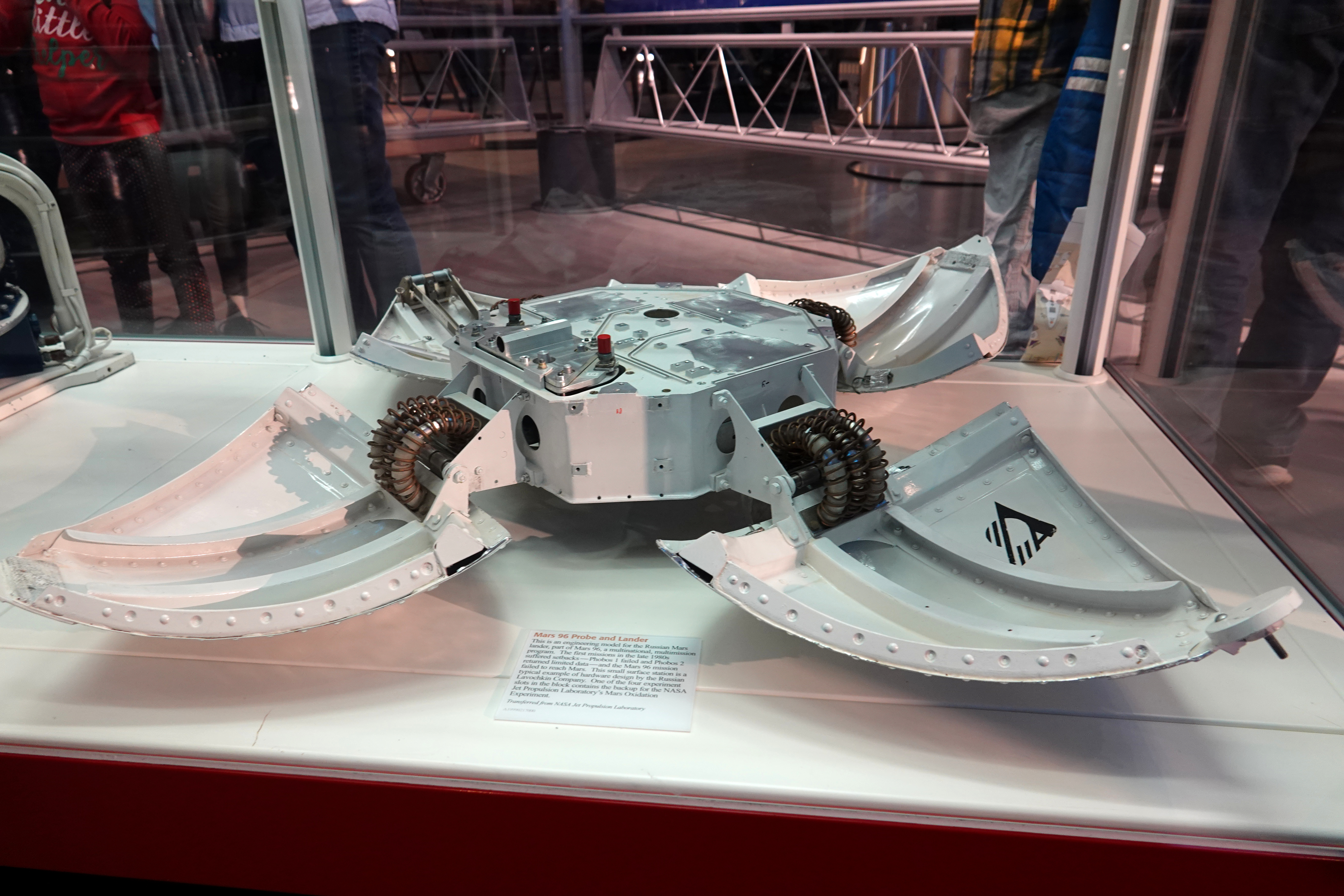 This is an engineering model for a planned Russian scientific probe that would land on the surface of Mars. The Mars 96 mission was going to be a multi-national and multi-mission exploration of Mars, which was to follow the successful Venus probes Vega 1 and 2 of the previous decade. Unfortunately, the first missions in this series, Phobos 1 and 2, failed to accomplish their goals, and the Mars 96 mission failed to reach Mars. Nevertheless, this small surface station is an excellent example of the hardware design that Lavochkin Company of Russia has refined during its thirty-five years of building planetary probes. The actual station carried experiments from France, Finland, Germany and the US inside the Russian-made bus. Of the four experimental slots in the block, the NASA Jet Propulsion Laboratory's back up of the Mars Oxidation Experiment (MOx) occupies one. That experiment was the United States' contribution to the mission. The Jet Propulsion Laboratory transferred this object to the museum in 2001. Picture taken at the National Air and Space Museum's Steven F. Udvar-Hazy Center in Chantilly, Virginia, USA.